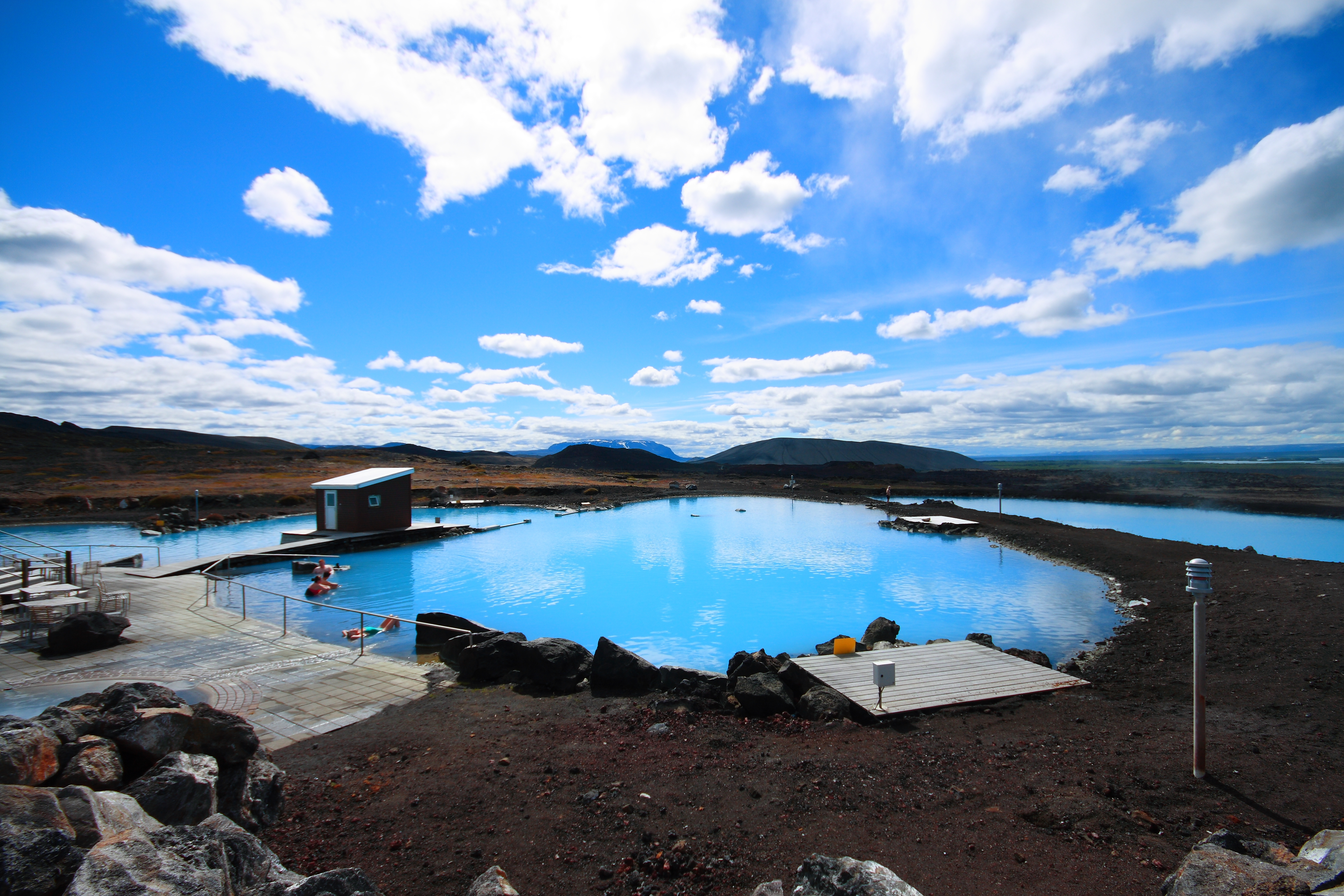 Myvatn Natural Baths